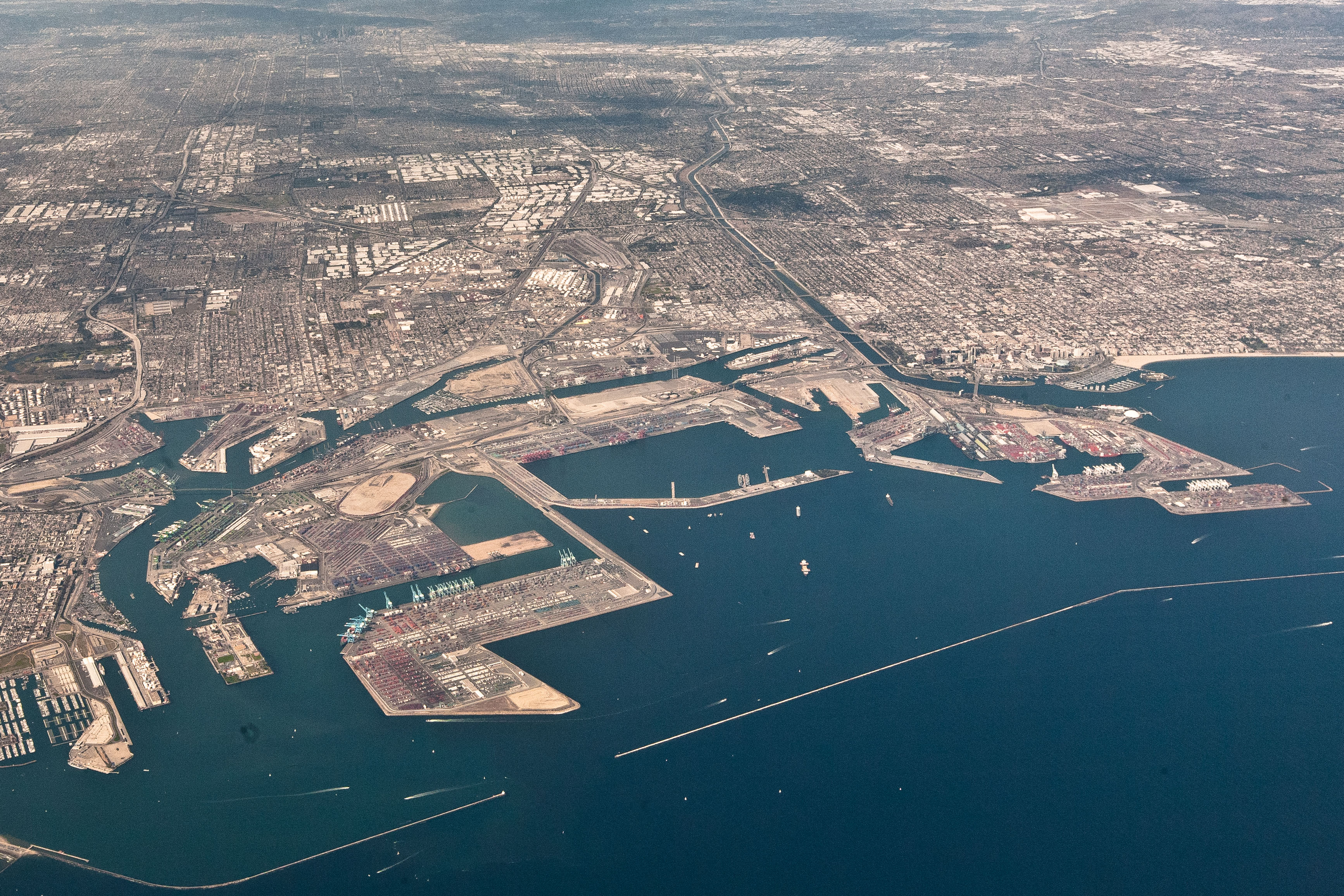 Aerial view of Ports of Los Angeles (left) and Long Beach (right)